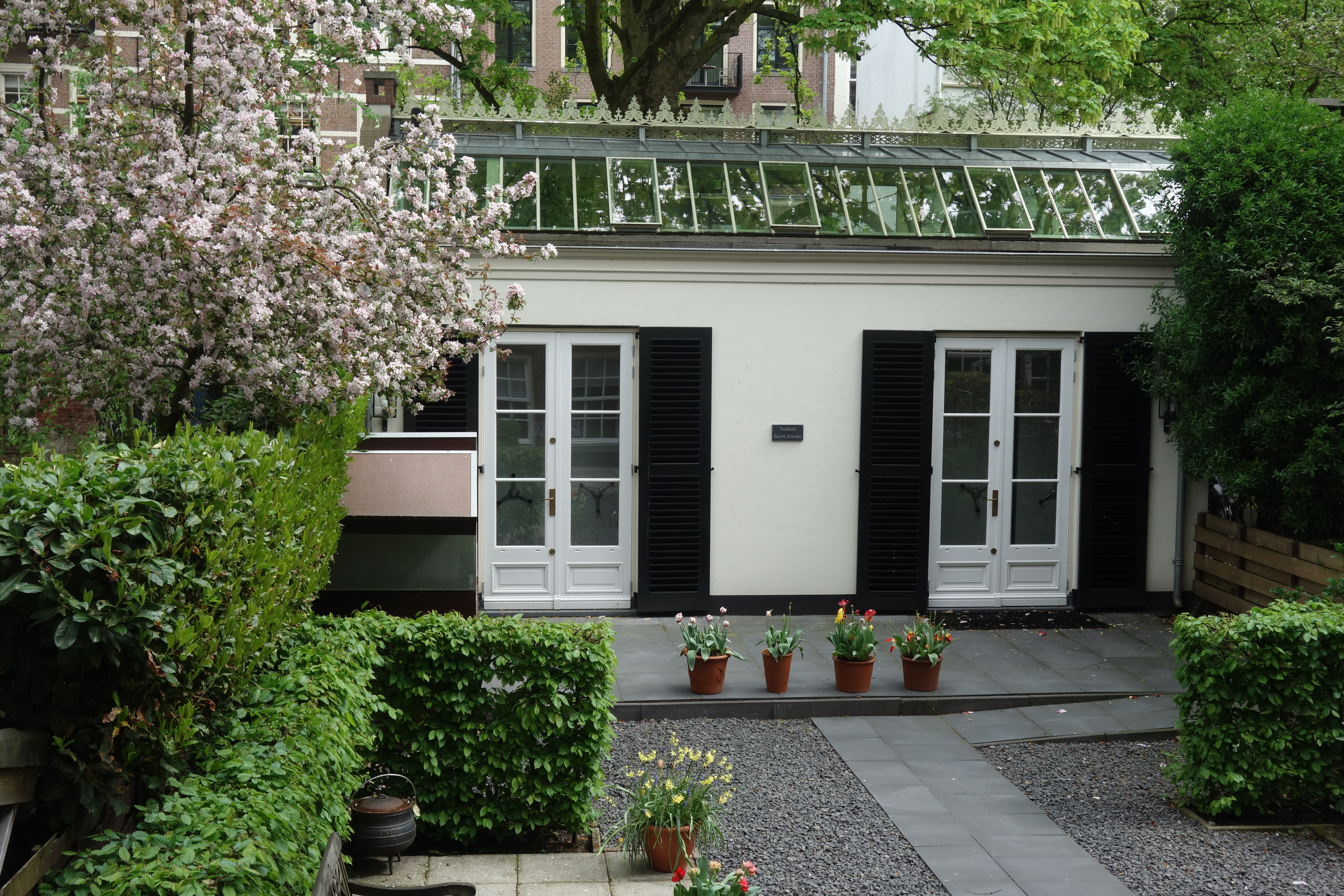 Archives in the garden, Zuid-AfrikaHuis, Keizersgracht 141, Amsterdam